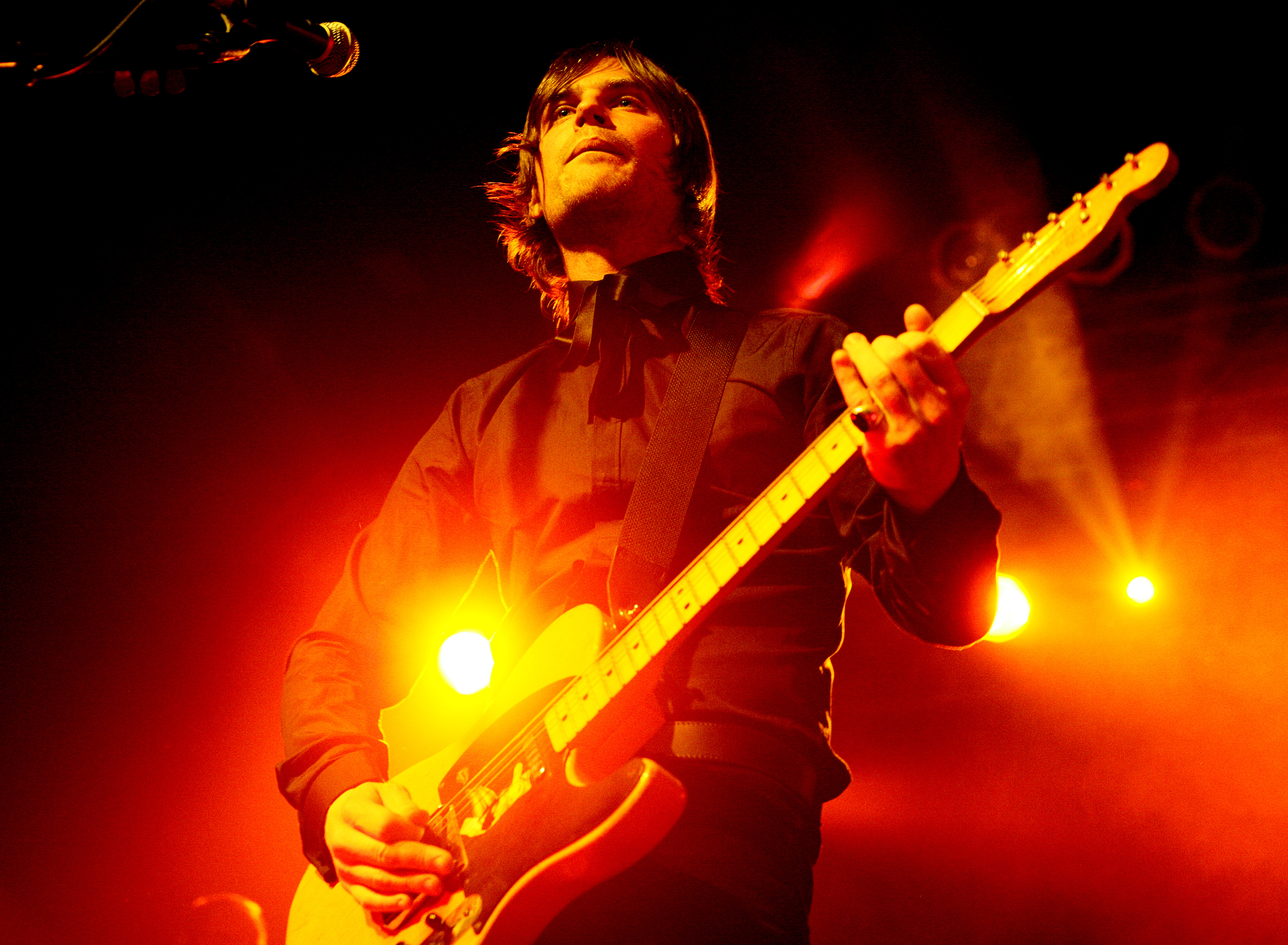 Peter Svensson from The Cardigans